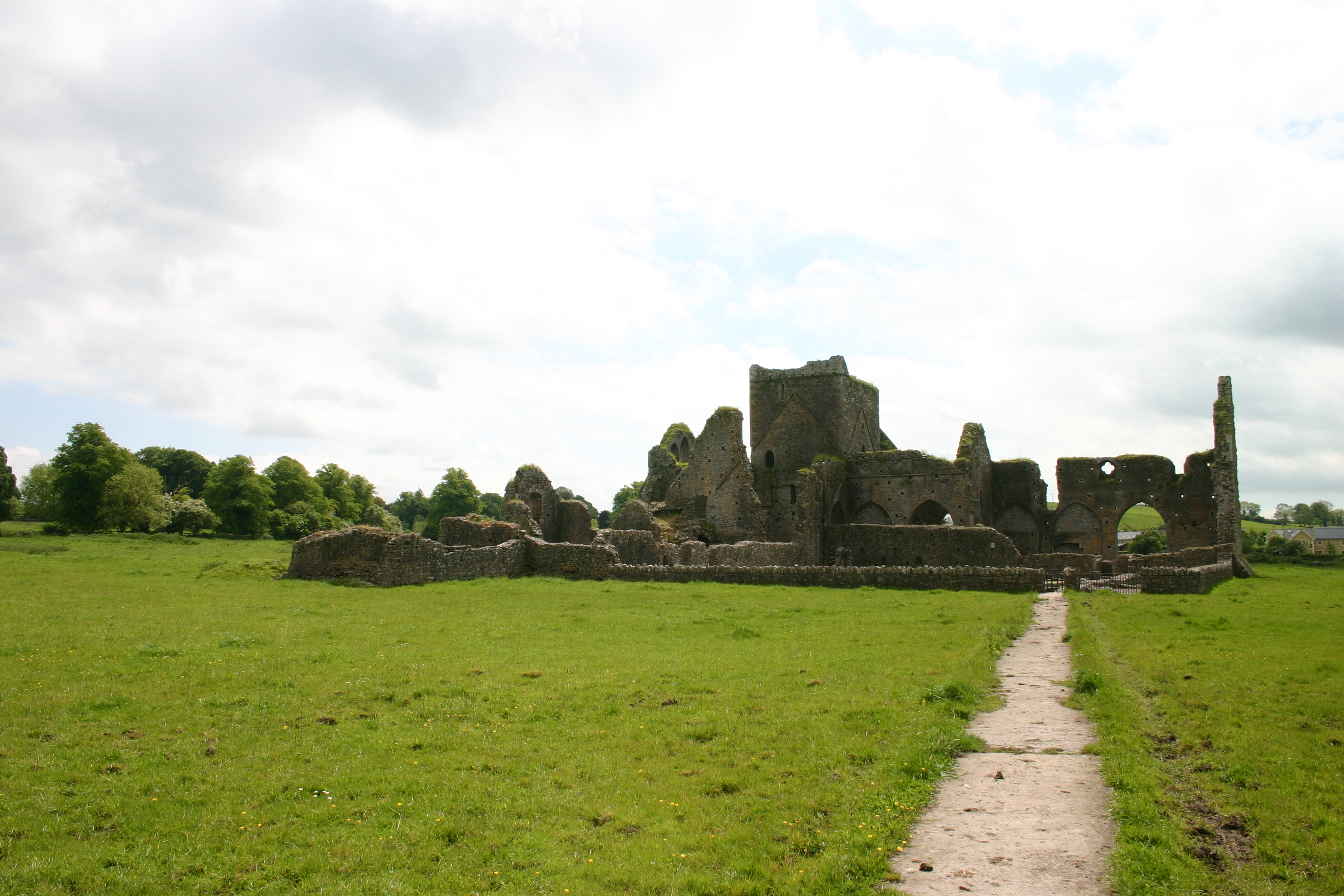 Hore Abbey from the path towards it